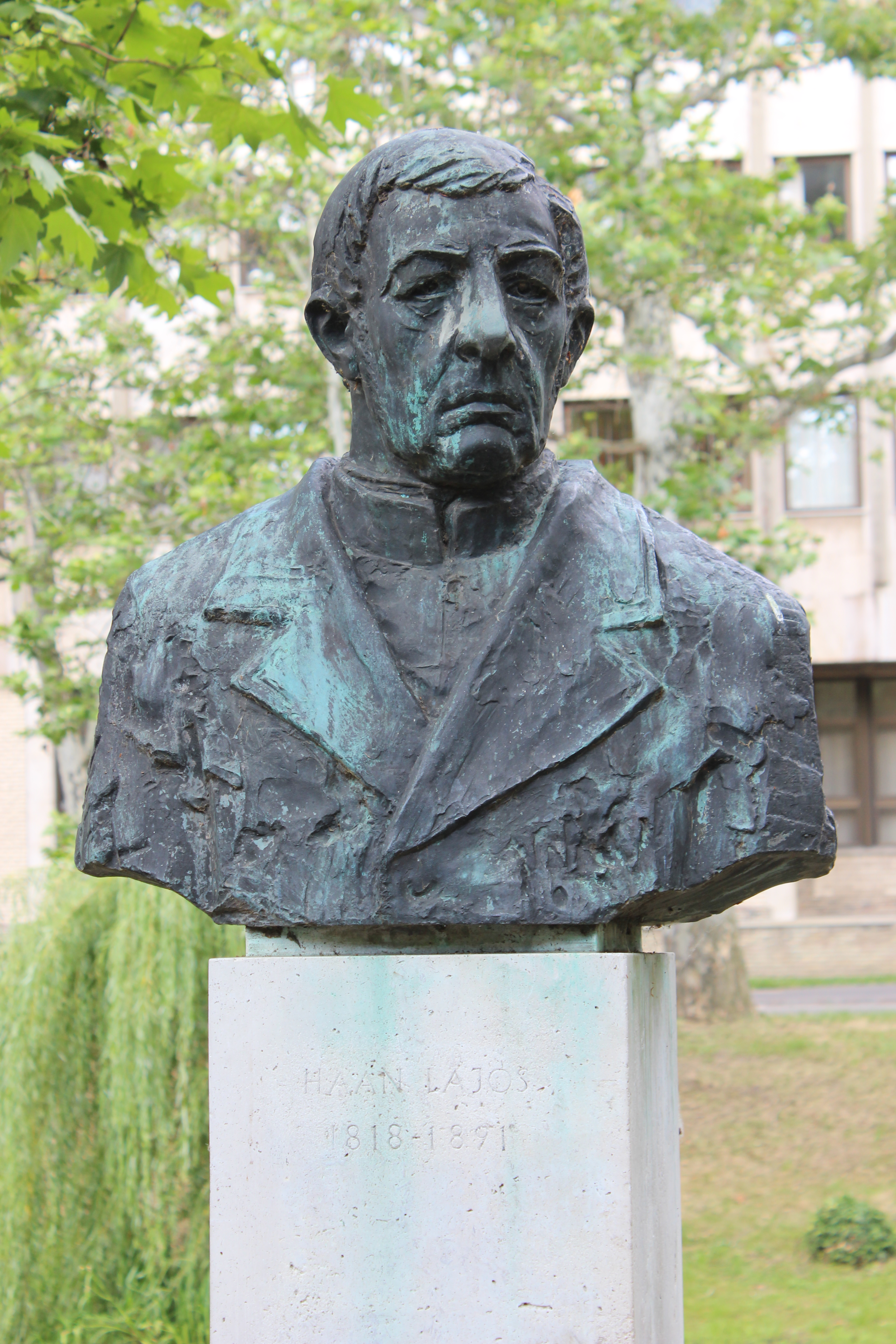 Bust of Lajos Haan (Békéscsaba, Hungary). Sculptor: Gyula Kiss Kovács, 1970.